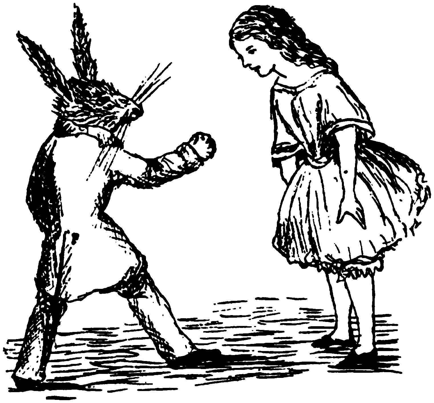 Illustration from page 33